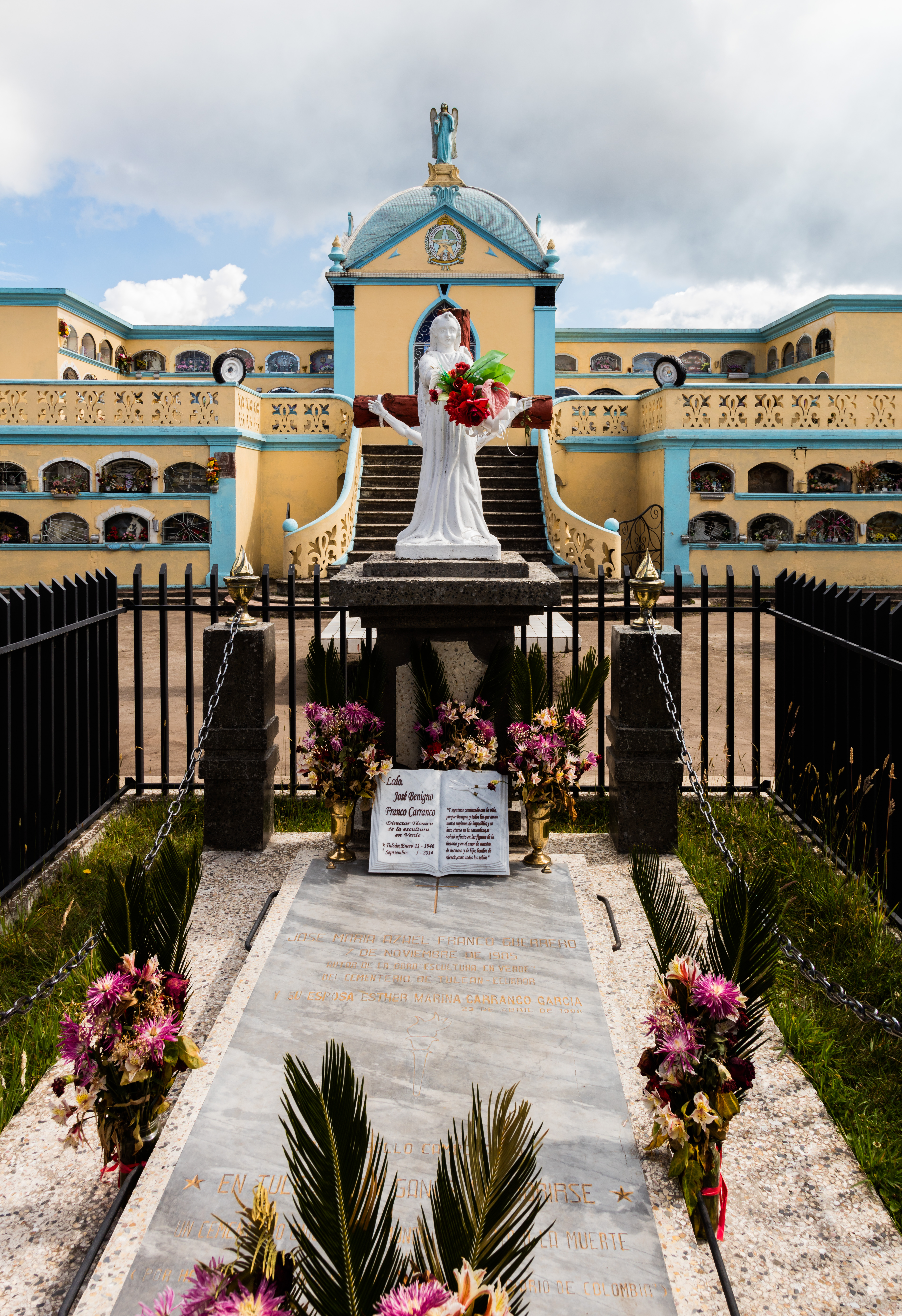 Cemetery, Tulcán, Ecuador